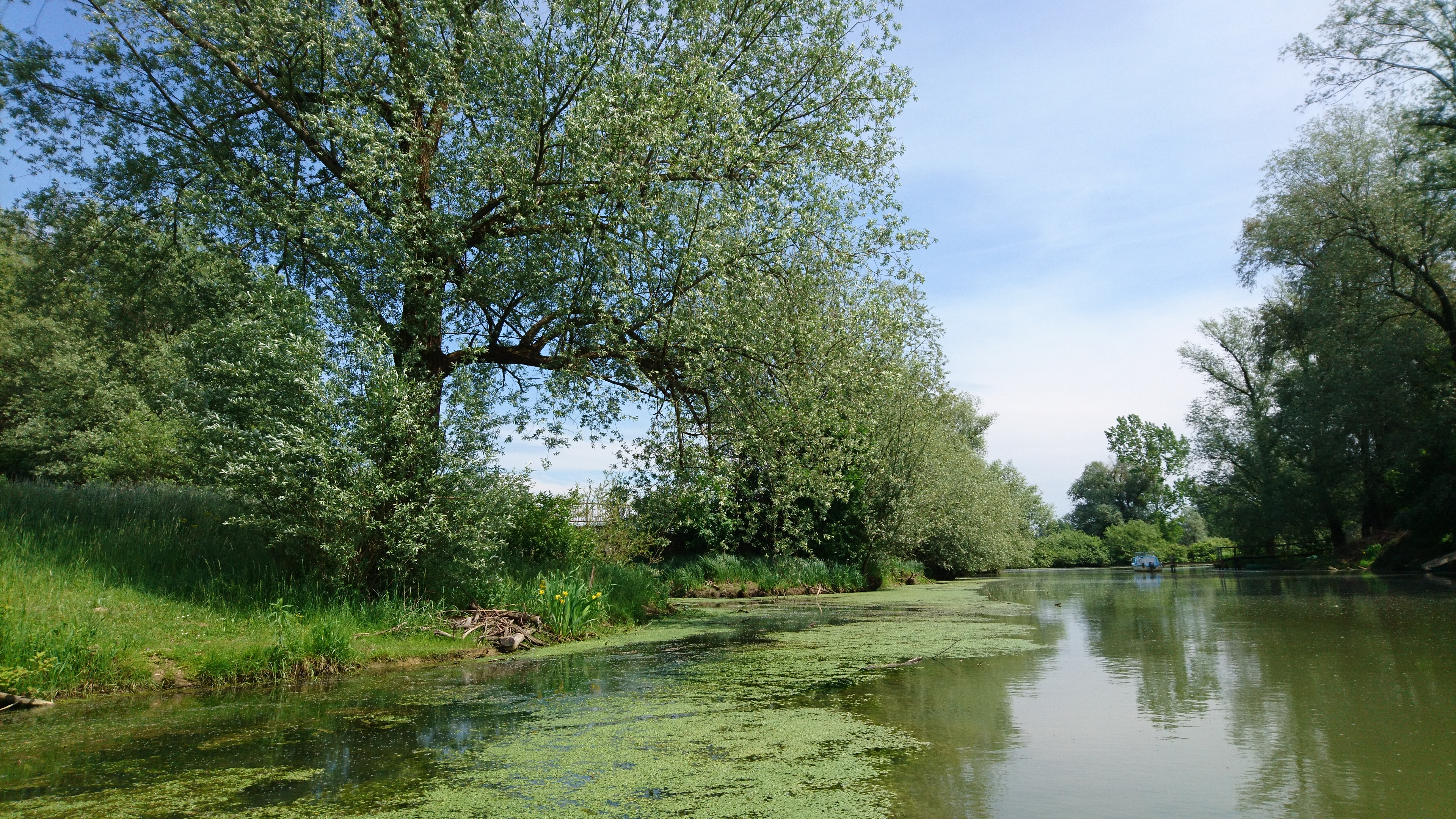 River Ižica near Ljubljanica